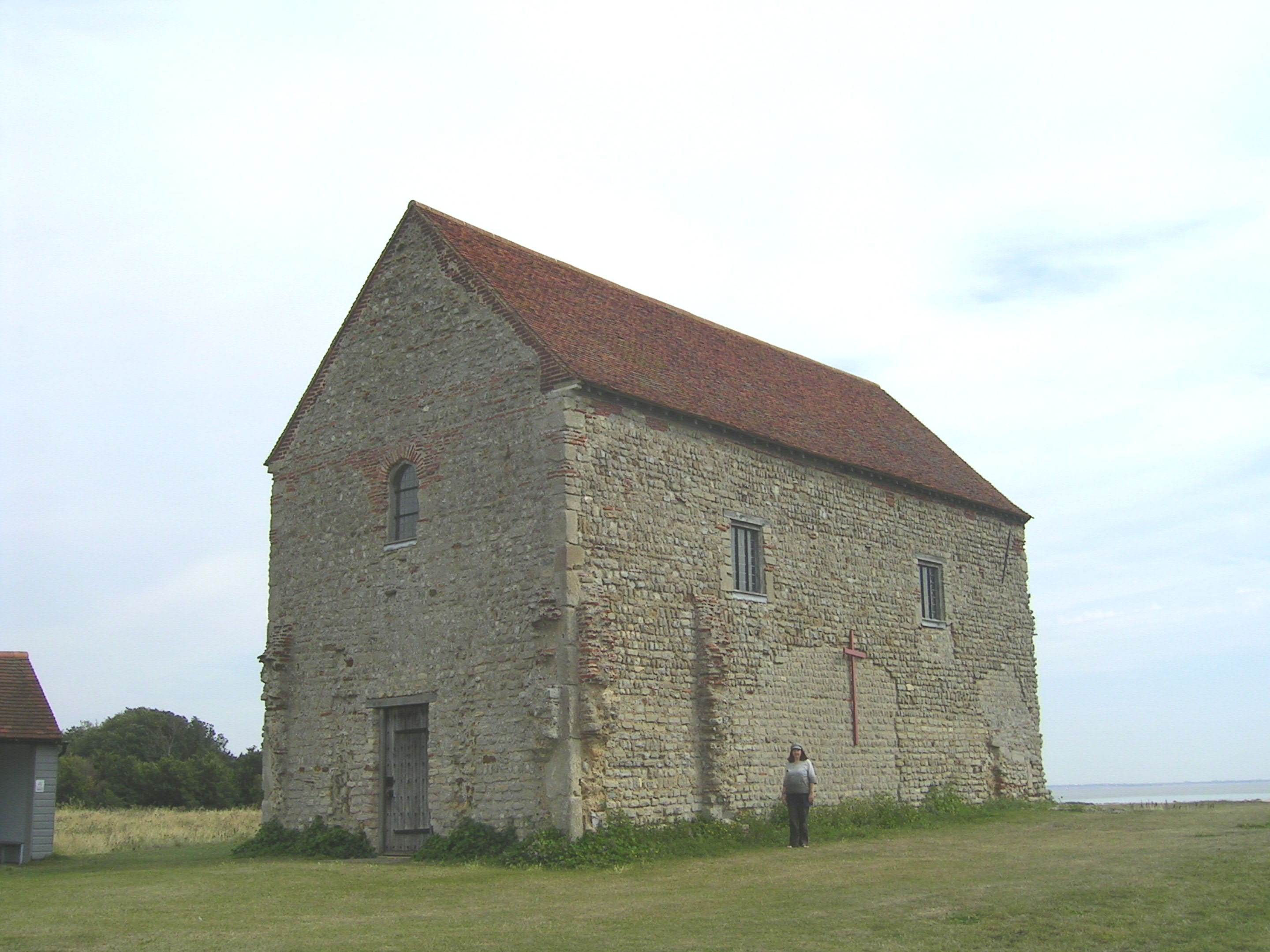 St Peter-on-the-Wall, possibly the oldest Christian church in England still in regular use.